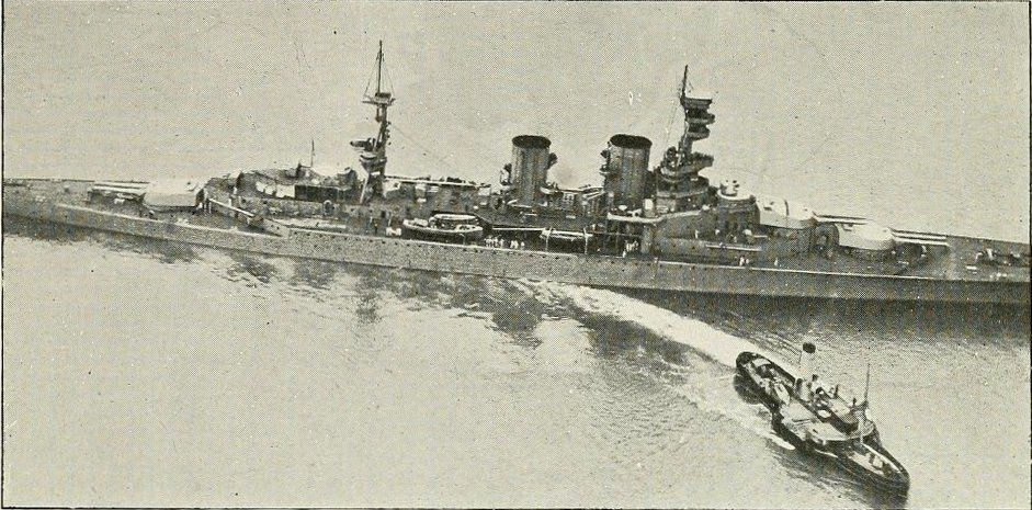 Aerial photograph from starboard of British battlecruiser HMS Repulse.